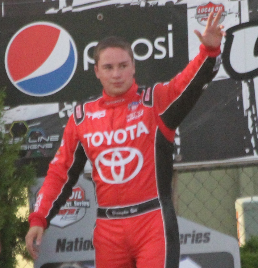 Midget car driver Christopher Bell (racing driver) after winning a heat at Angell Park Speedway.